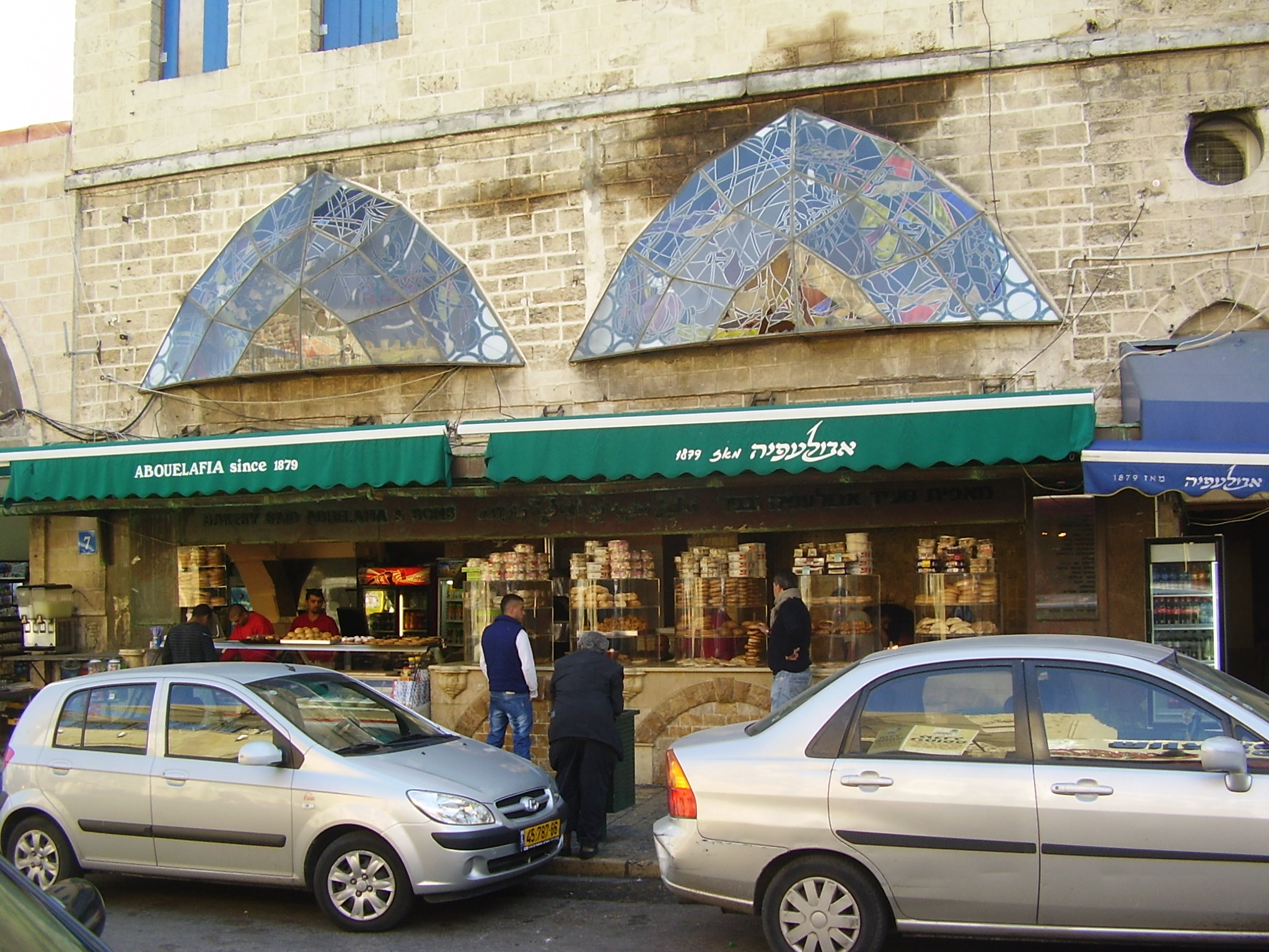 Abulafia Bakery in Jaffa